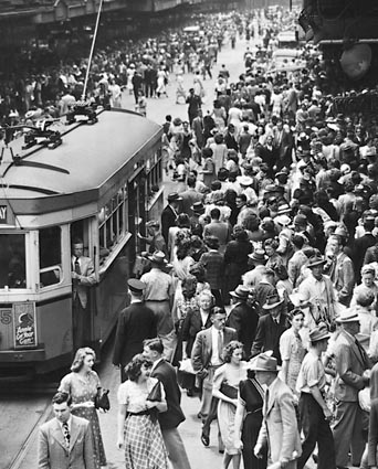 The source of this image is the National Archives of Australia, image number A1200, L11563.